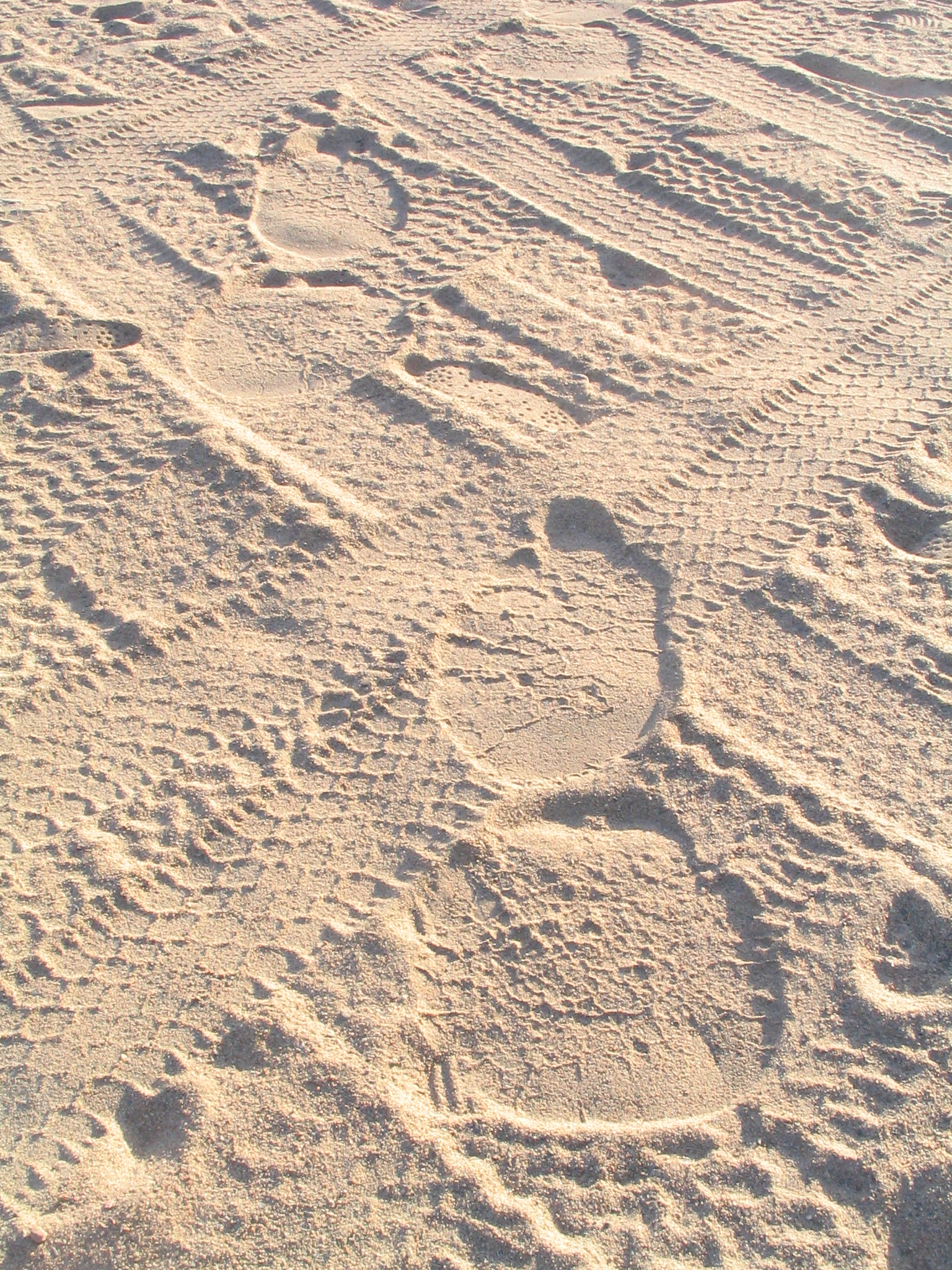 Elephant tracks in sand (4x4 tire tracks for scale). Picture taken by Muriel Gottrop in the Ugab valley of Namibia (September 2004).